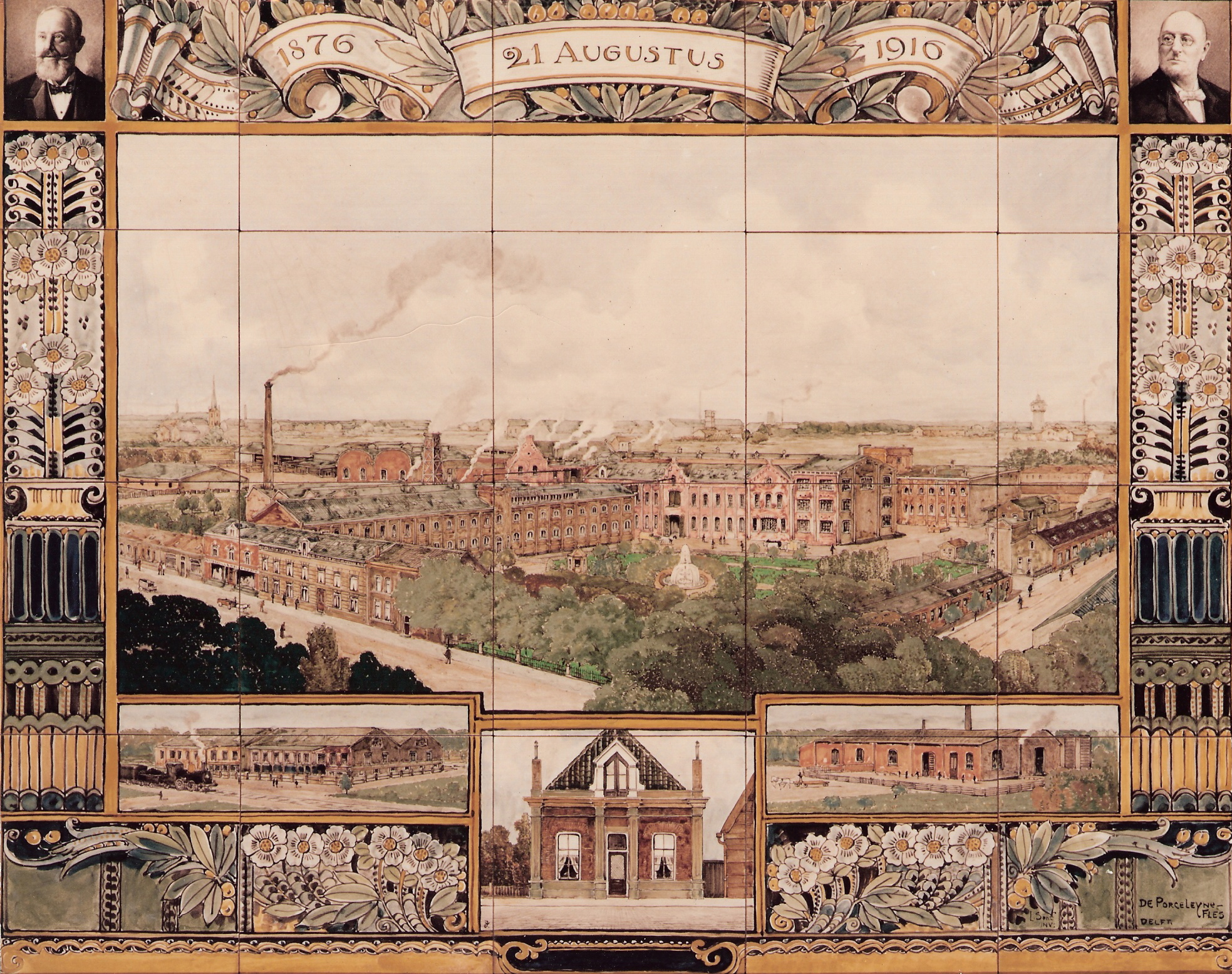 Tattersall & Holdsworth NV, Delfts tegel tableau. Cadeau van het personeel aan de directie van Tattersall. Te bezichtigen in Museum de Twentse Welle Enschede.